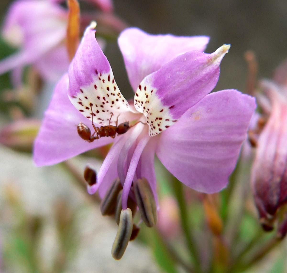 Photo of Alstroemeria revoluta at the UBC Botanical Garden